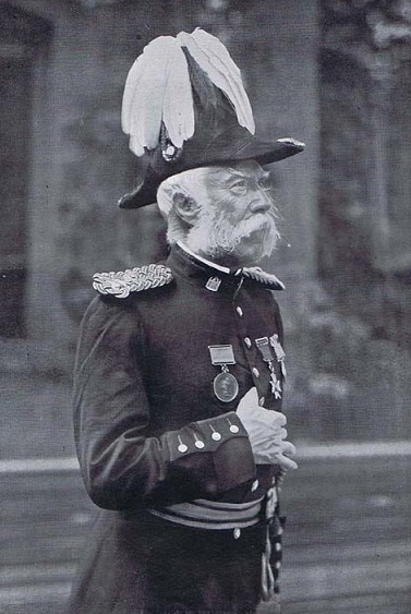 Photograph of Lieutenant General Sir George Bryan Milman from the Illustrated London News